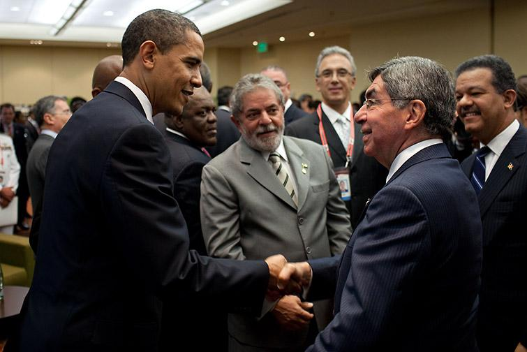 President Barack Obama greets Costa Rican President Oscar Arias during the opening reception at the Summit of the Americas in Port of Spain, Trinidad on April 17, 2009. Also pictured are Brazilian President Luiz Lula da Silva, middle, and Dominican Republic President Leonel Fernandez, far right.